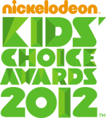 Nickelodeon KCA 2012 Logo